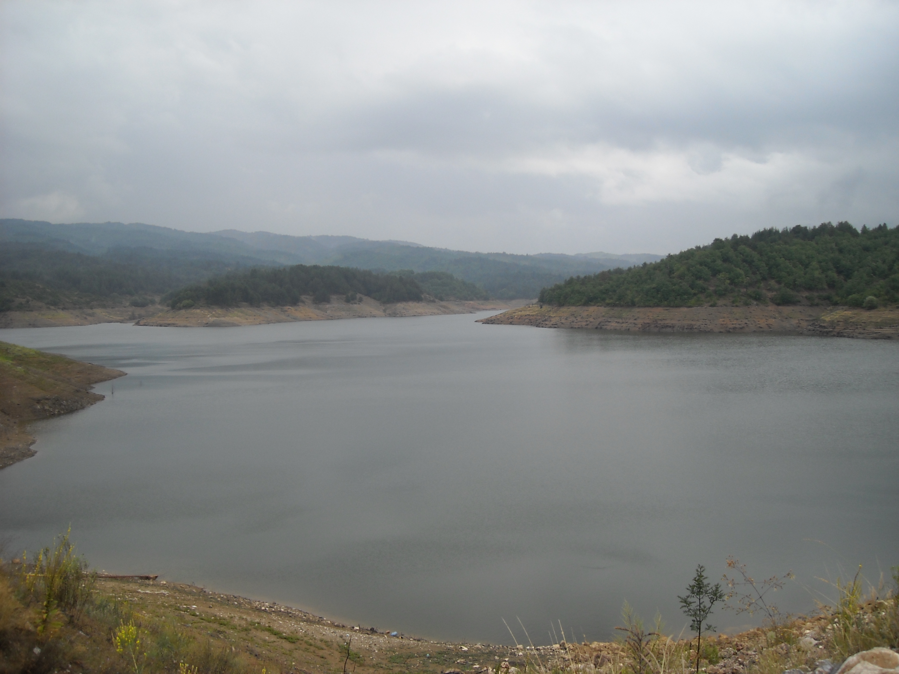 Thisavros Dam in Greece.